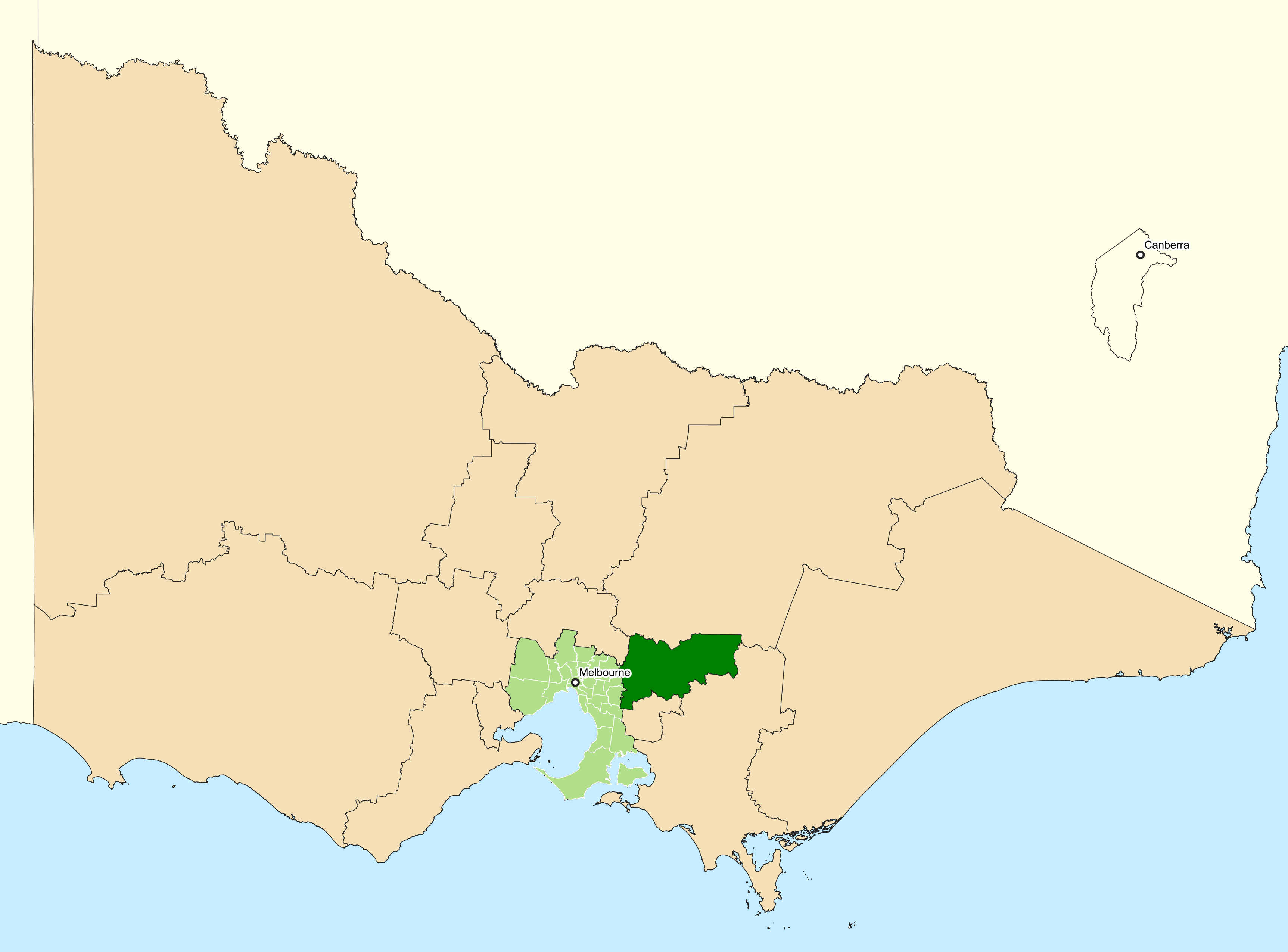 Location of the Australian federal electoral division of Casey (dark green) in Victoria as of the 2019 Australian federal election. Incorporates or developed using Administrative Boundaries ©PSMA Australia Limited licensed by the Commonwealth of Australia under Creative Commons Attribution 4.0 International licence (CC BY 4.0).